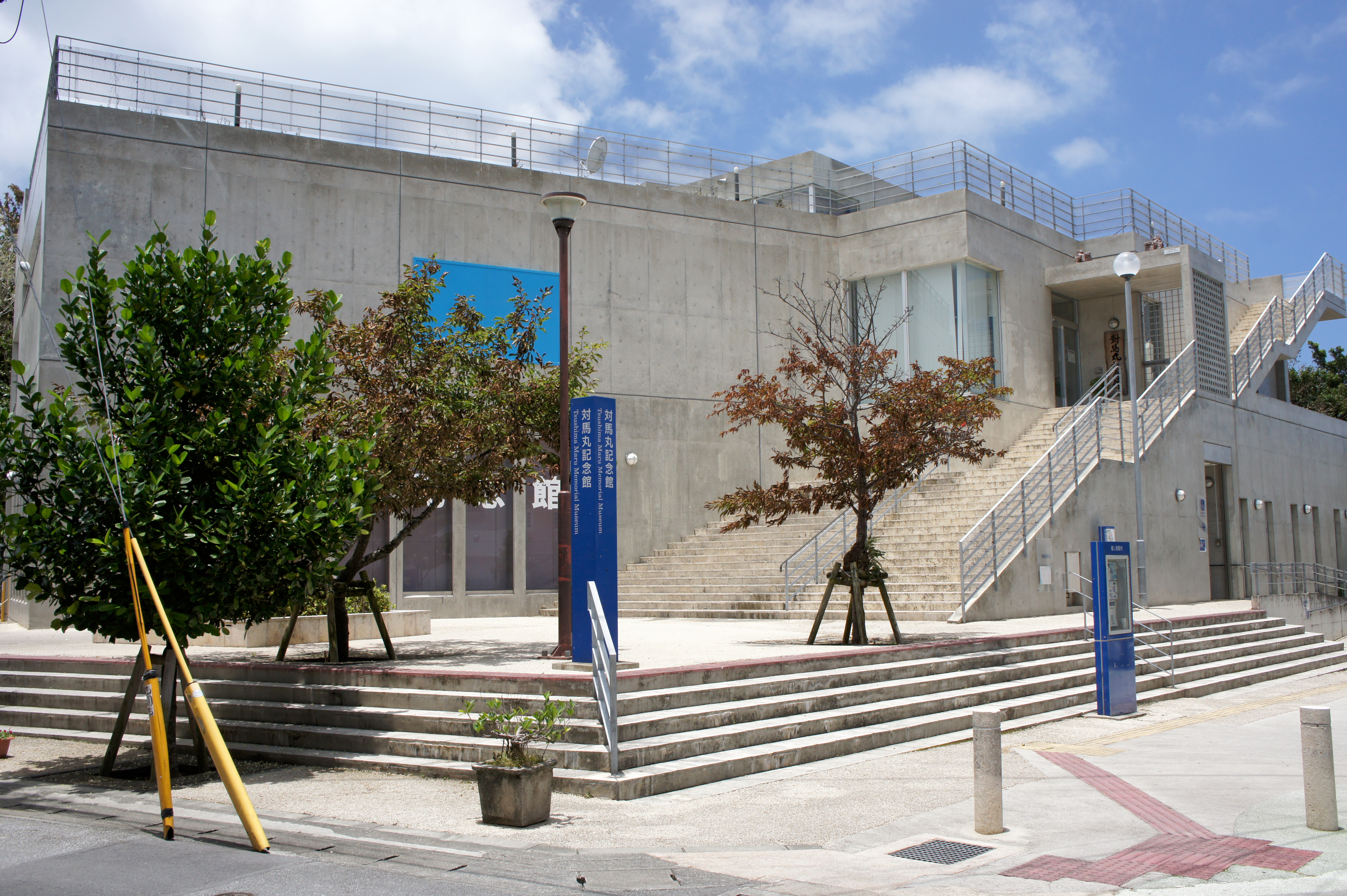 Tsushima-maru Memorial Museum in Naha, Okinawa prefecture, Japan.